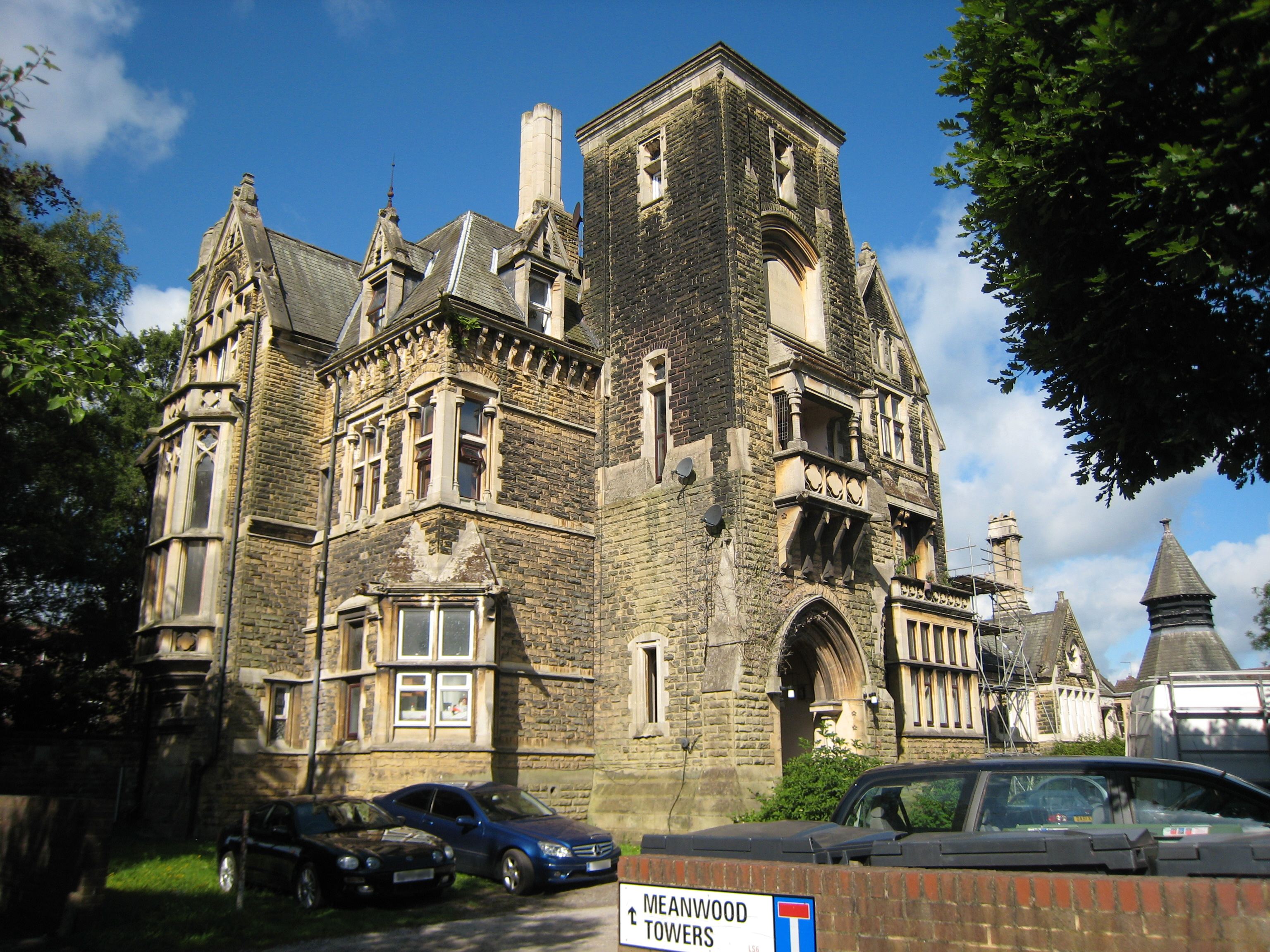 Meanwood Towers, Leeds LS6 4PL, UK. Designed by E. W. Pugin 1867